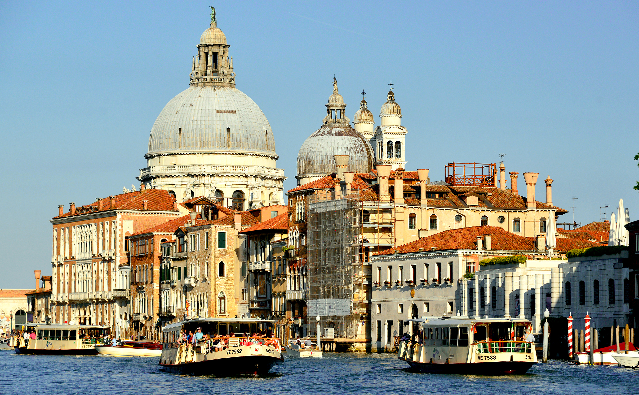 Three of the vaporetto (water bus) boats carrying passengers